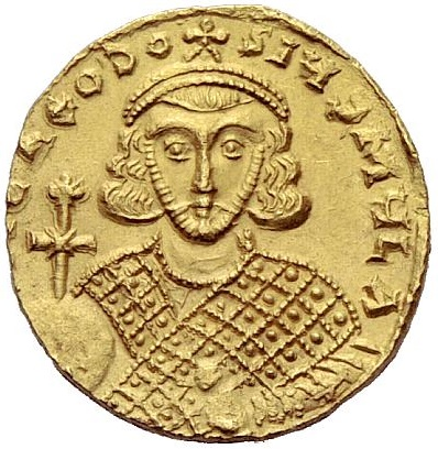 Theodosios III. Solidus